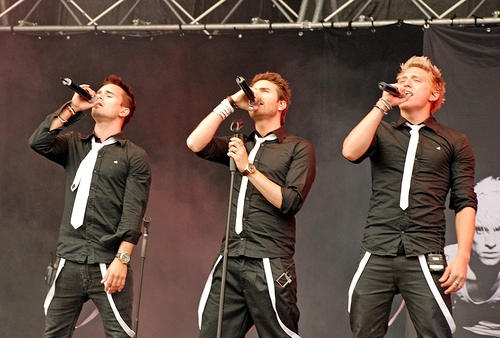 Swedish boyband E.M.D. in concert.